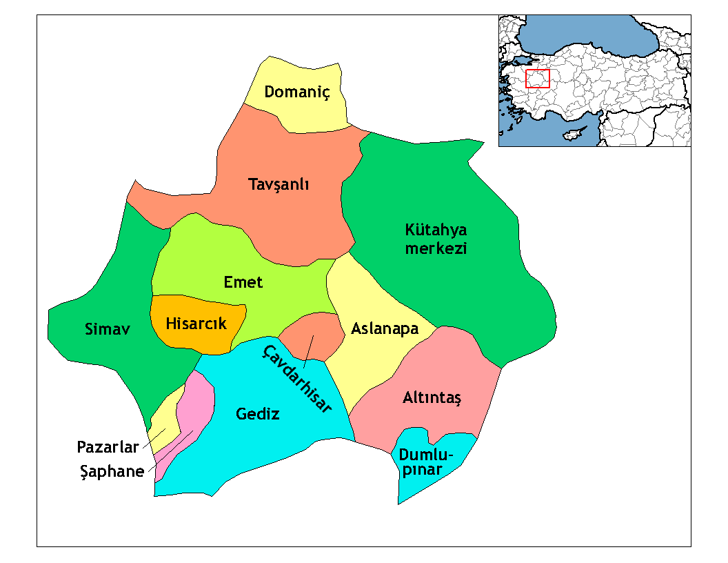 Map of the districts of Kütahya province in Turkey. Created by Rarelibra 22:01, 1 December 2006 (UTC) for public domain use, using MapInfo Professional v8.5 and various mapping resources. Edited by One Homo Sapiens Corrected text where İ,Ş,ı,ğ,or ş occurs in name. Source: [statoids-com]. Increased font size and enhanced color differences among adjacent districts.